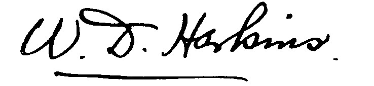 Harkins's signature